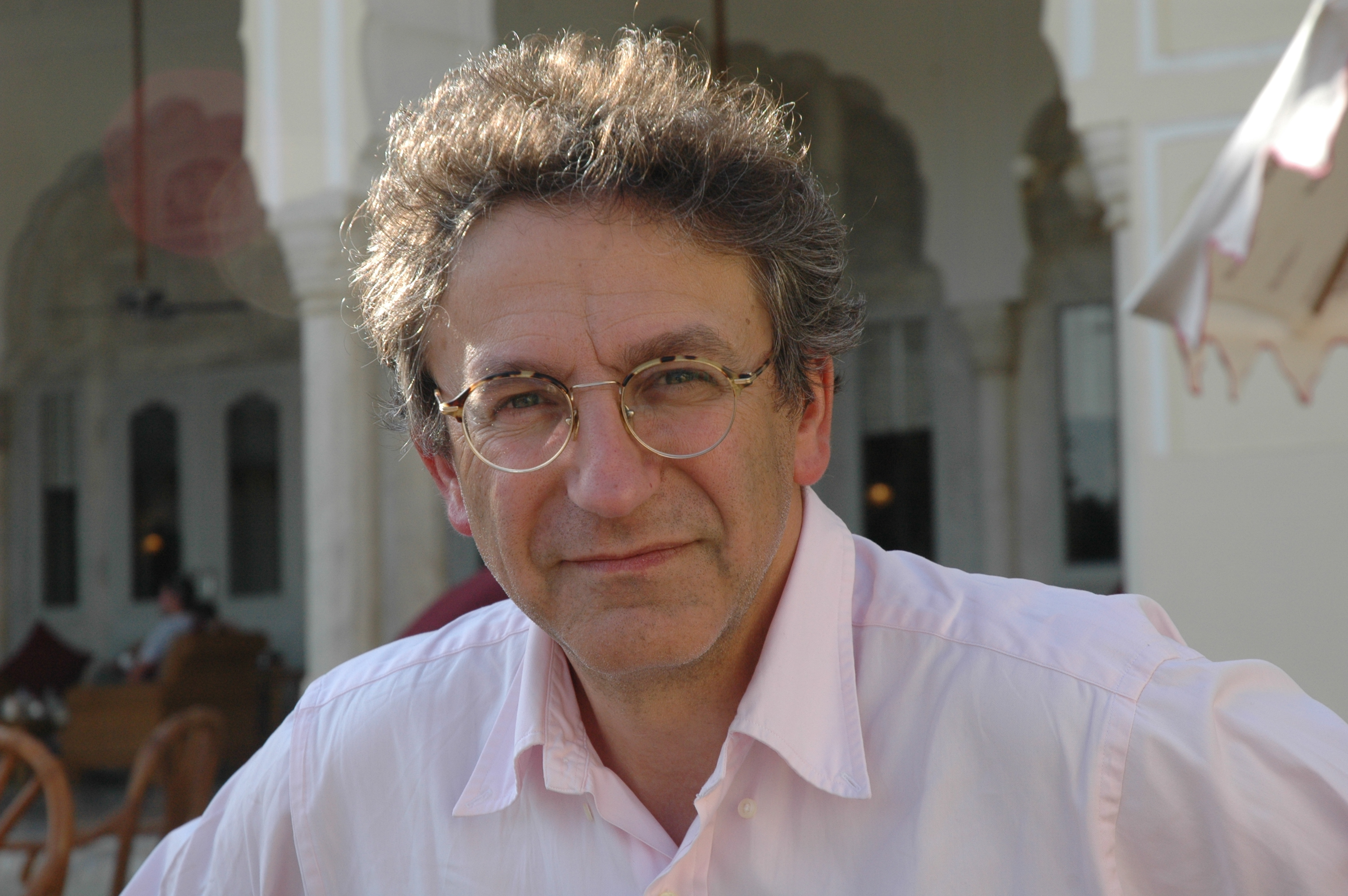 J Silver, From Genesis enthusiast